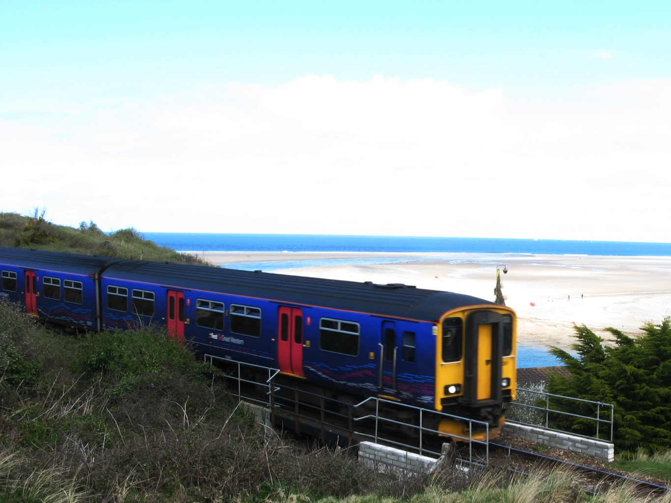 First Great Western 150261 passes through Lelant Towans with a train from St Ives to St Erth.